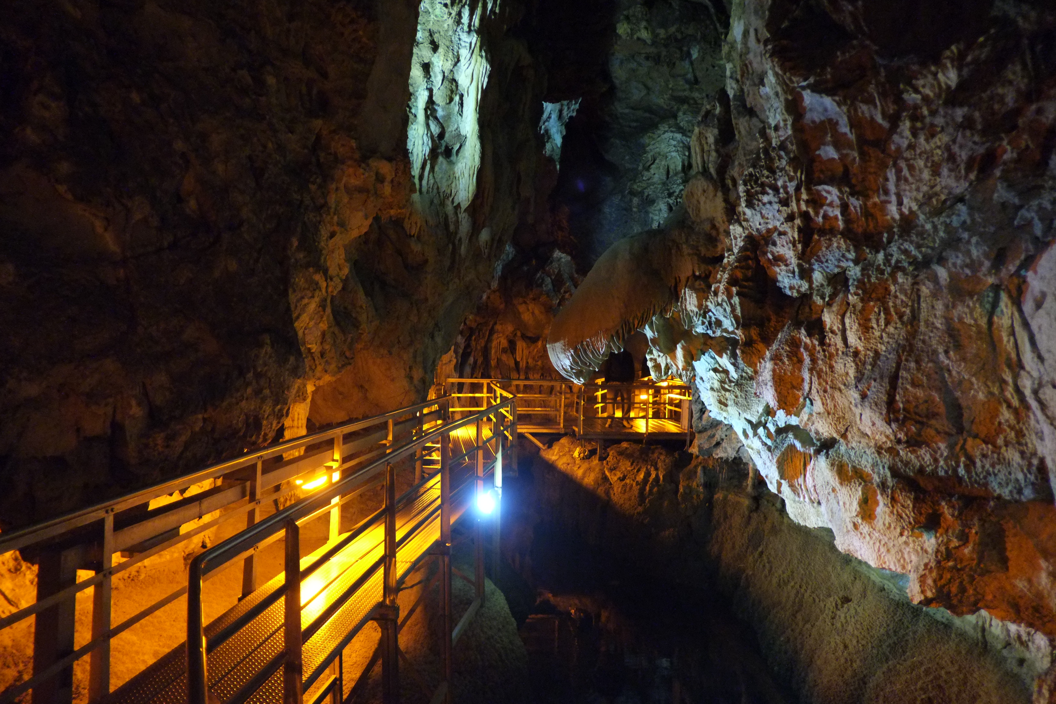 lake cave